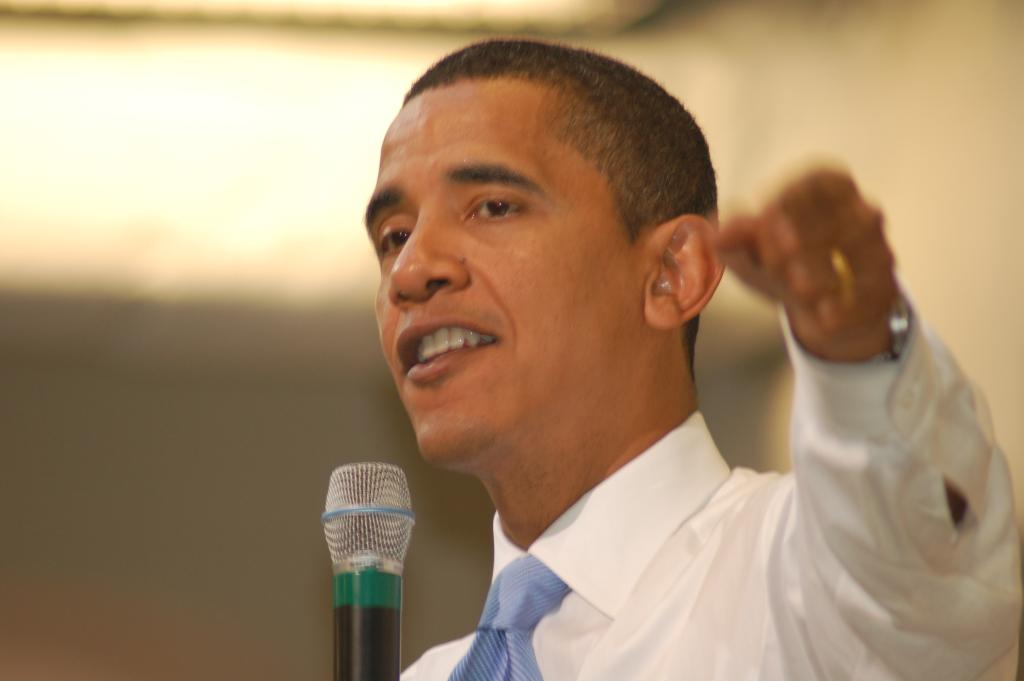 Barack Obama